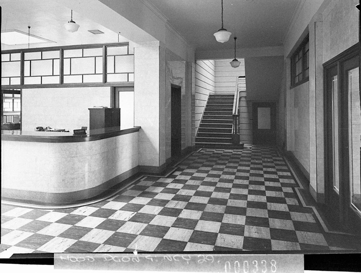 Manly Council Chambers